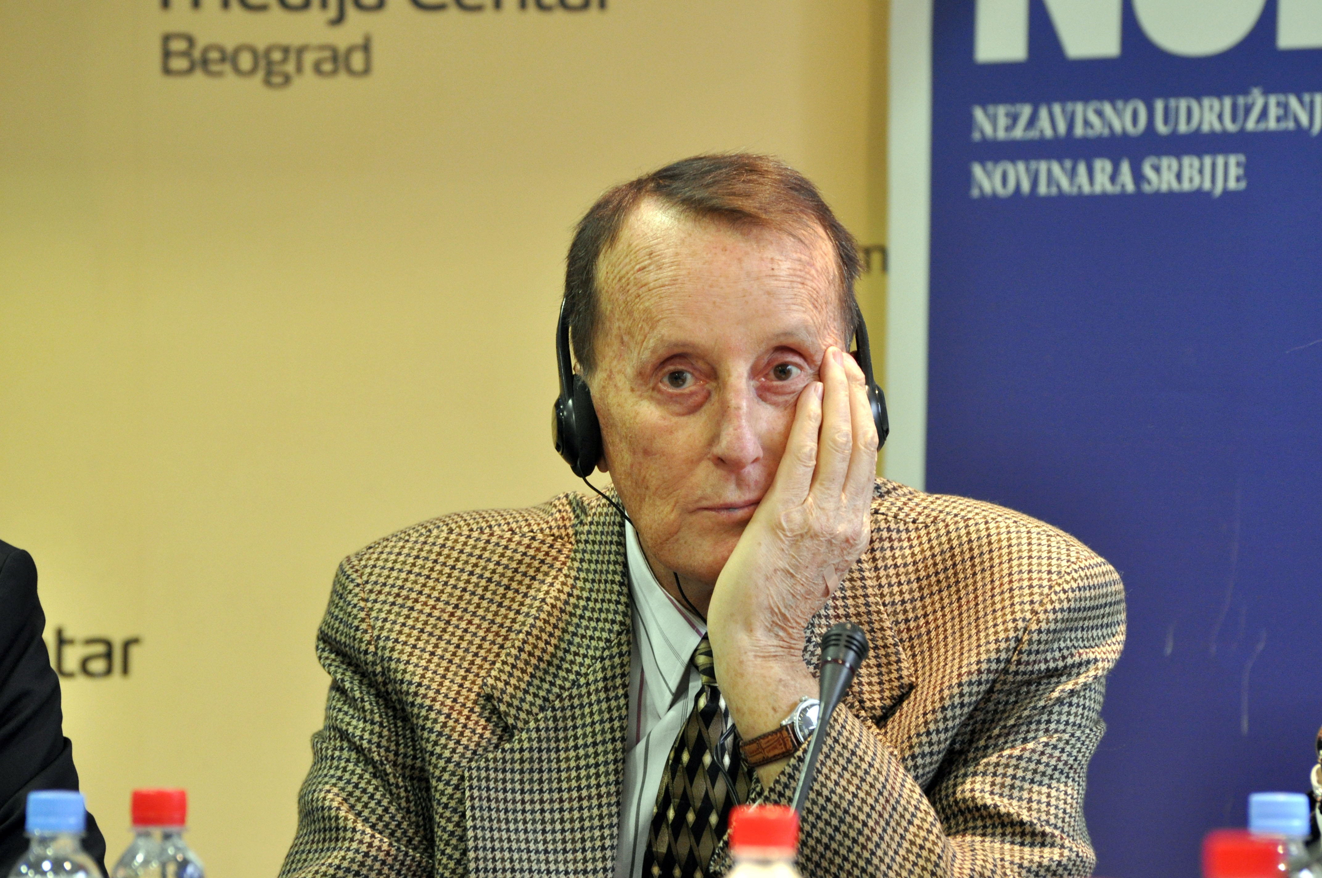 Dragoljub Živojinović